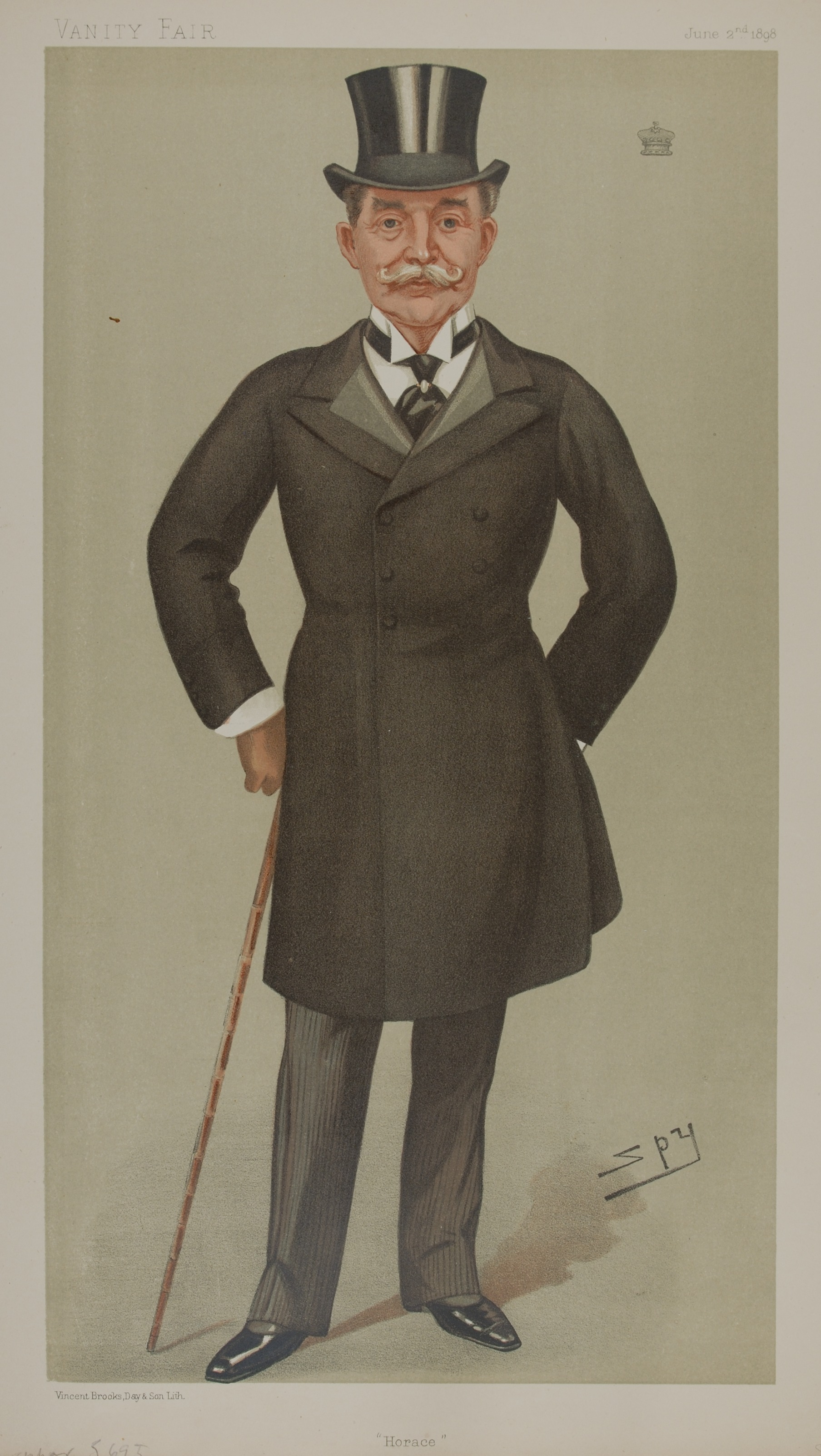 Statesmen No. 695: Caricature of Horace Farquhar, Baron Farquhar. Caption read "Horace".